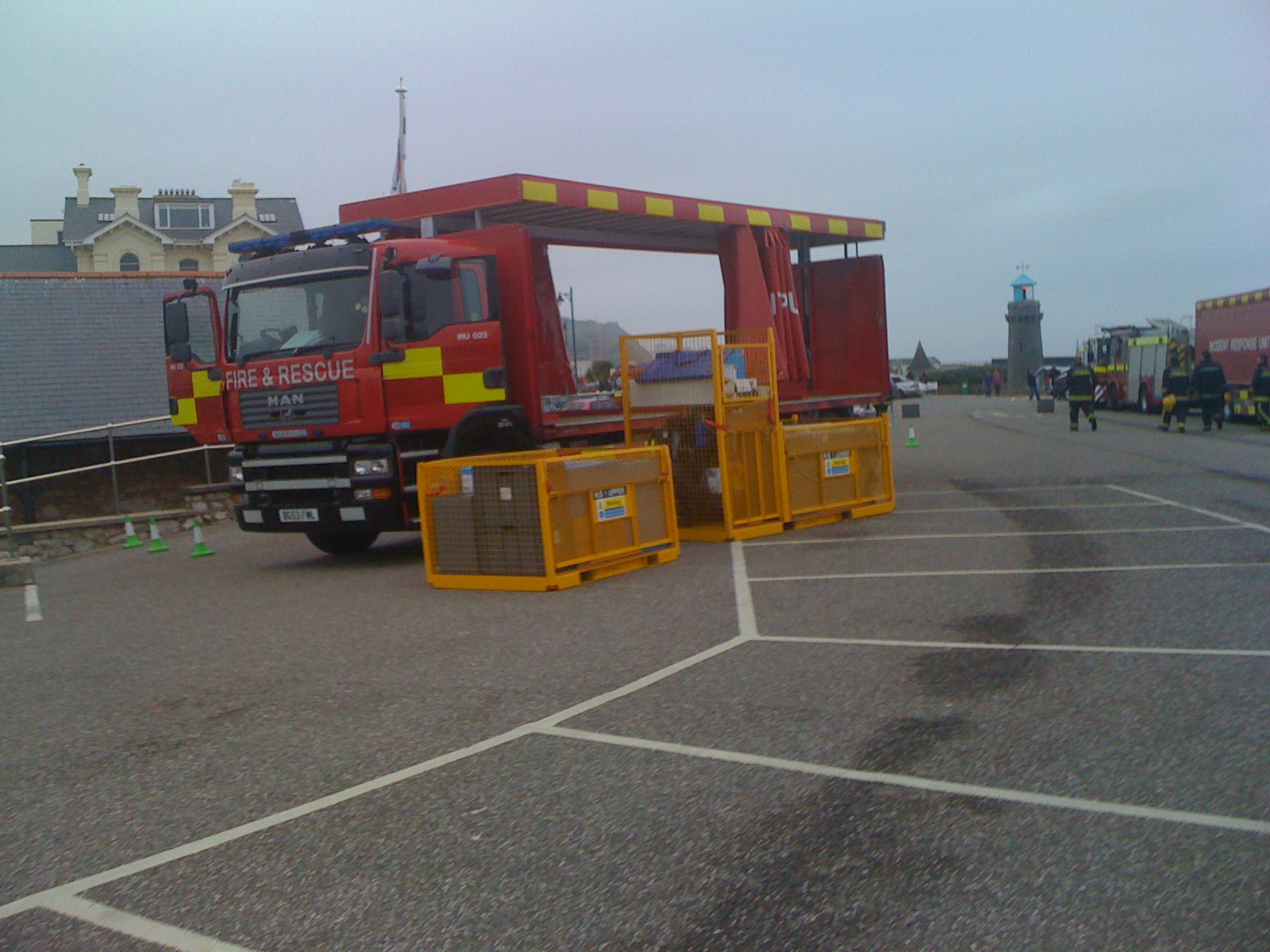 Incident response unit - DSFRS